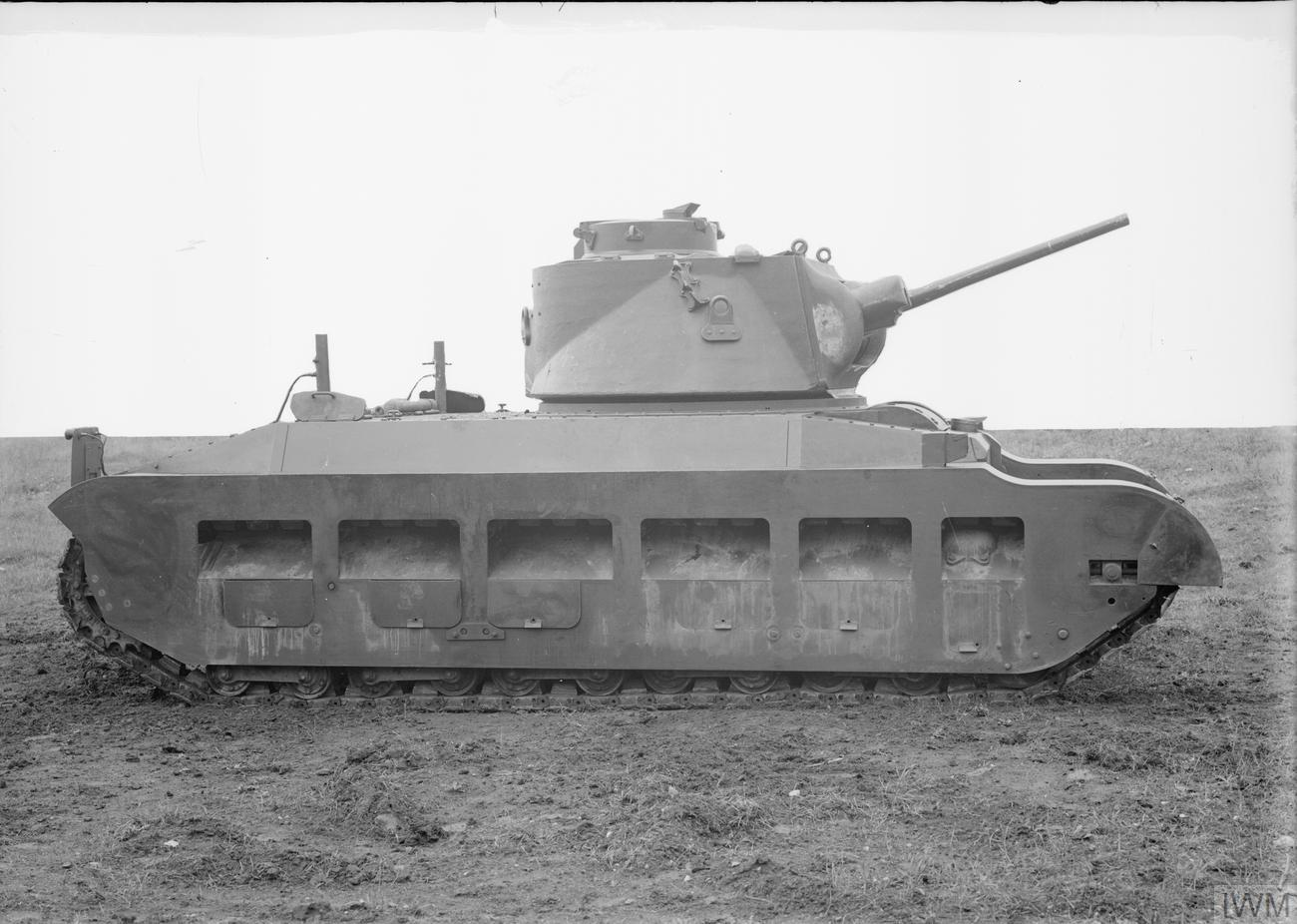 BRITISH ARMOURED FIGHTING VEHICLES 1918-1939 Infantry Tank Mk II Matilda II (A12EI) prototype.